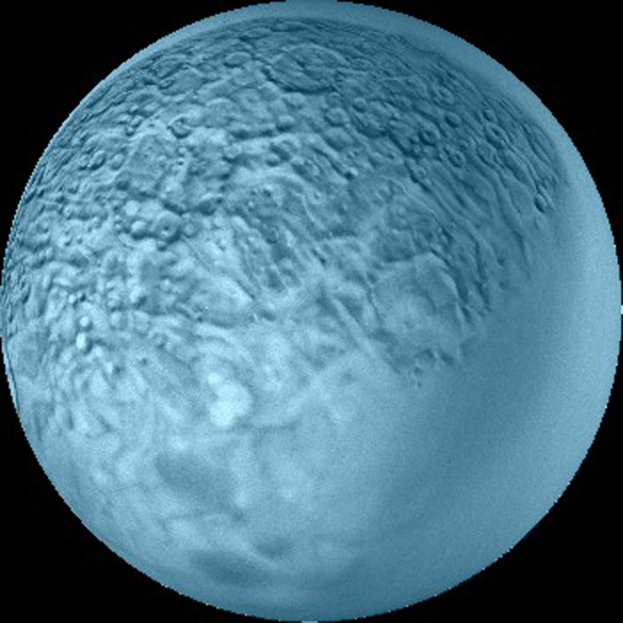 The map of Umbriel. Blue color is artificial.